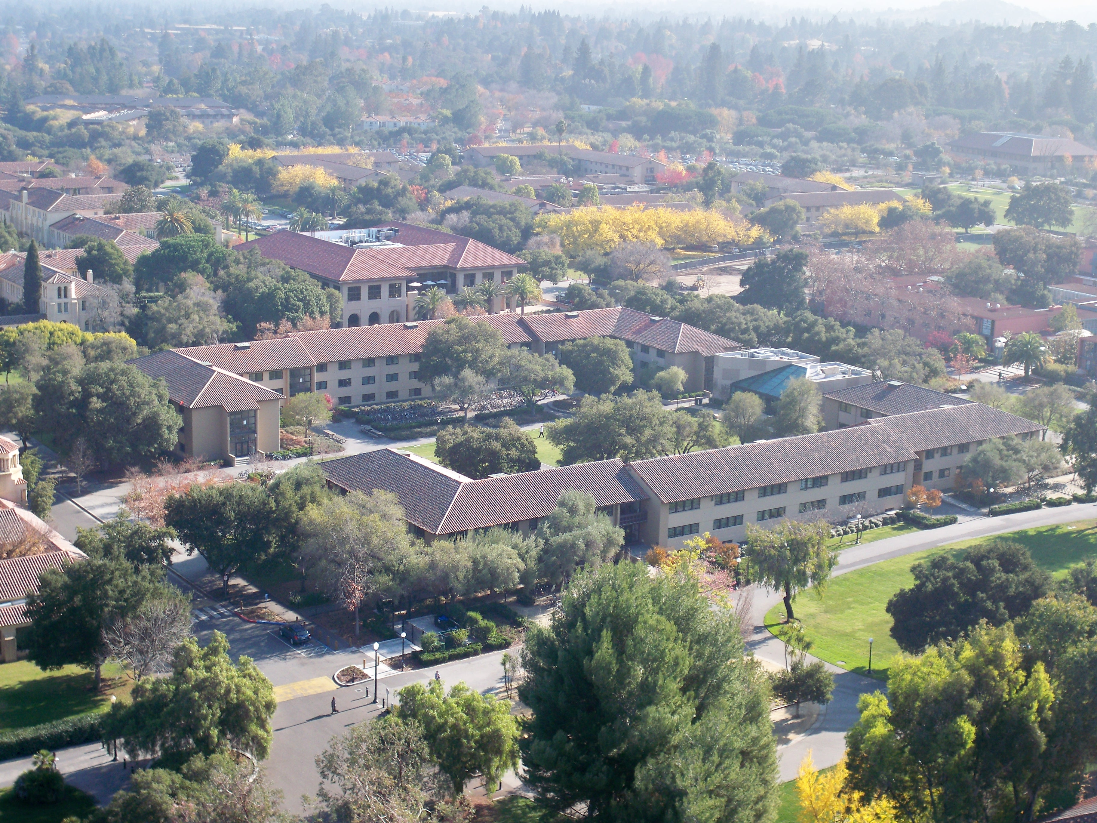 Crothers Halls complex on the Stanford University campus, as seen from the observation deck of Hoover Tower. The portion of the quadrangle closer to the viewer is Crothers Hall; the portion farther from the viewer is Crothers Memorial Hall. Funding to build these student residences was donated by Stanford alumnus George E. Crothers. Crothers Hall was named for George Crothers, while Crothers Memorial Hall was named in memory of his mother, Margaret Jane Crothers.